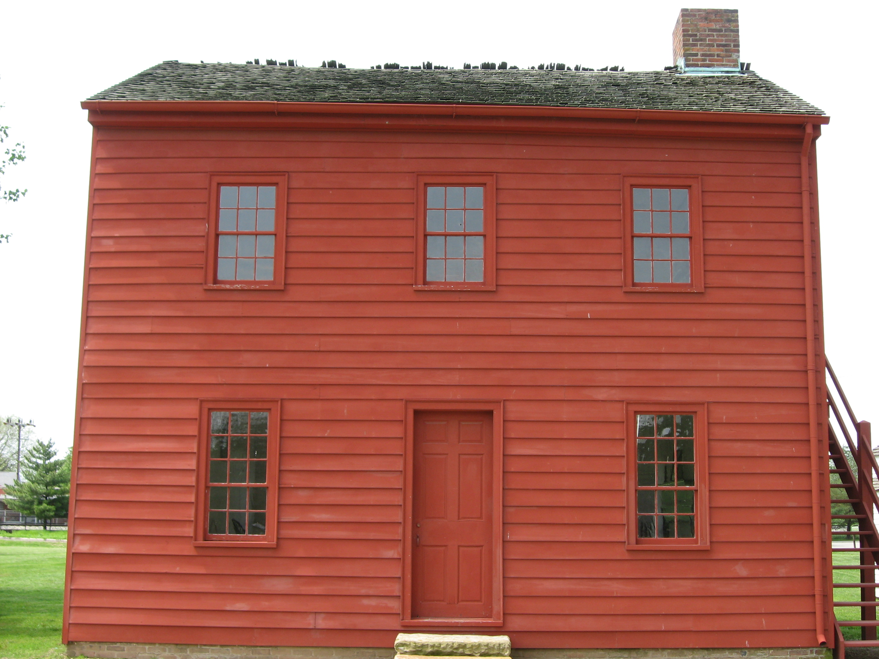 Front of the Indiana Territorial Capitol, located off Harrison Street in Vincennes, Indiana, United States. Built in 1805, it is listed on the National Register of Historic Places, and it is part of a Register-listed historic district, the Vincennes Historic District.